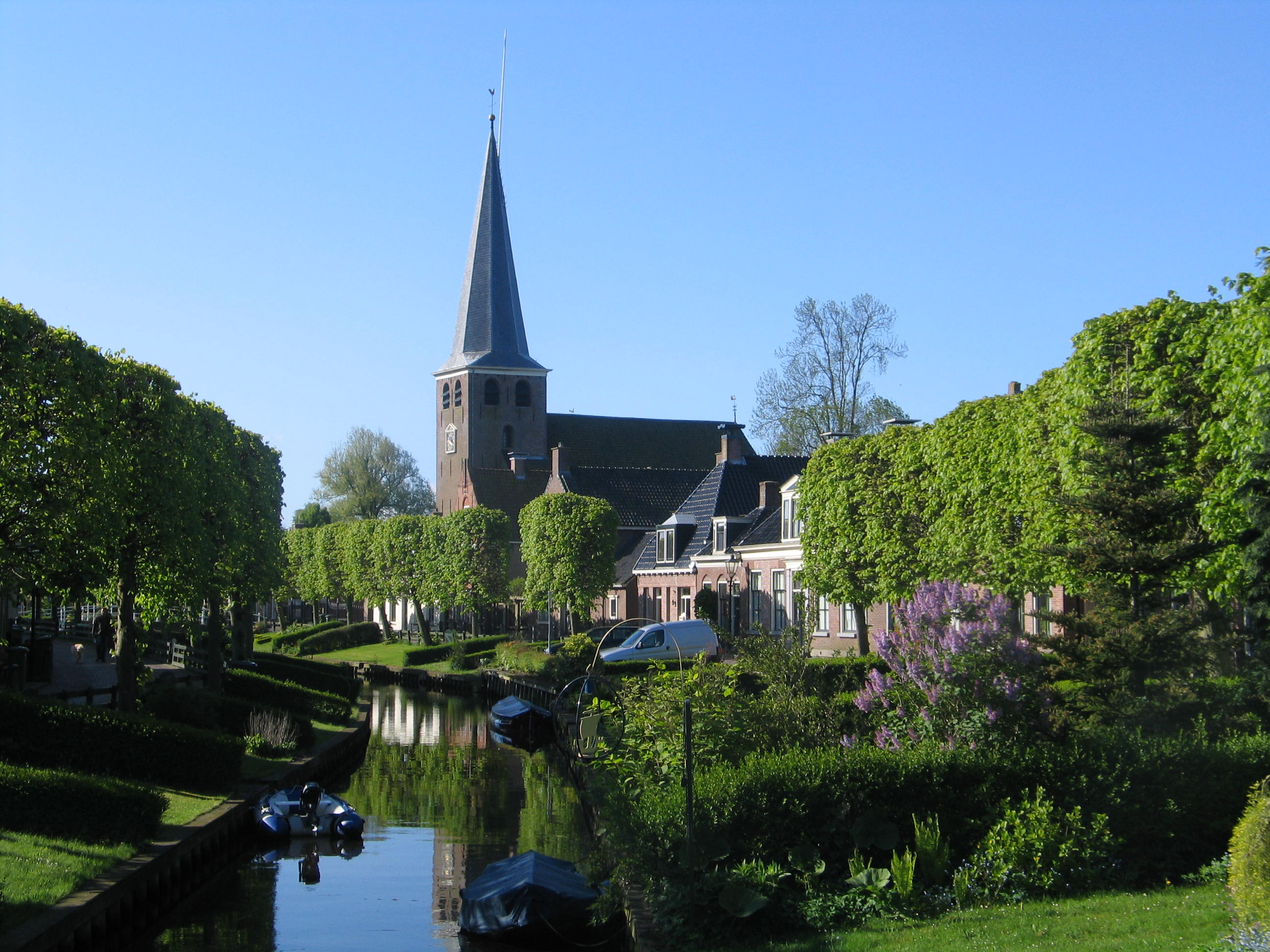 IJlst, one of the eleven cities in Friesland